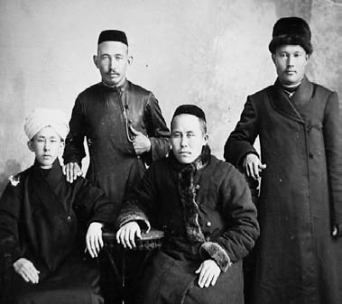 Qurbangaliev brothers